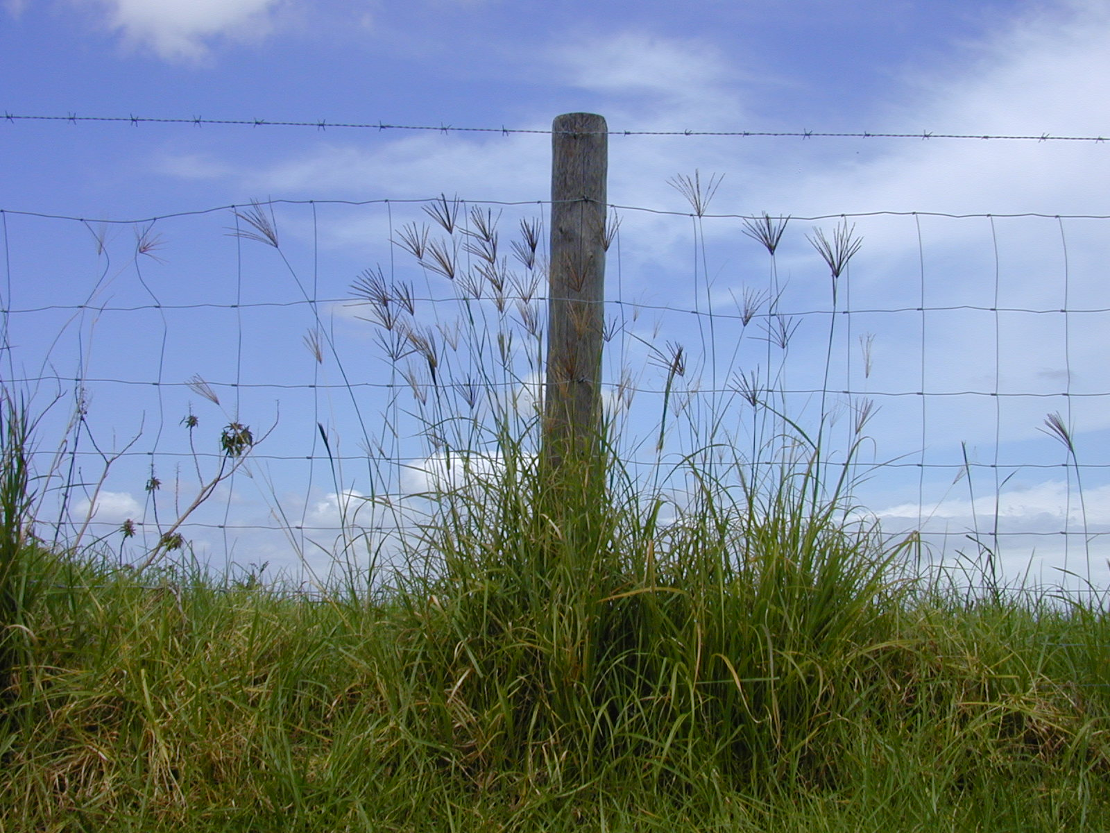 Chloris gayana (habit). Location: Maui, Kula